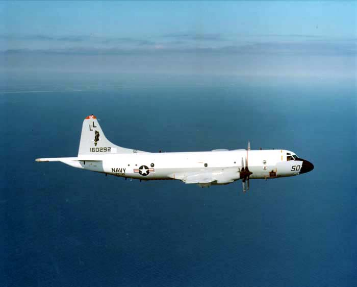 VP-30 (LL 50) P-3C (BuNo 160292) in-flight, date unknown. Repository: San Diego Air and Space Museum Archive